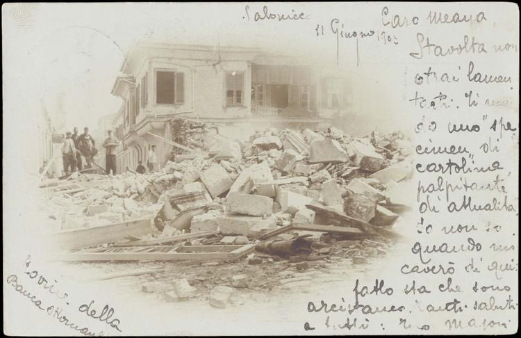 Inside the building of Ottoman Bank after blow up, april 1903